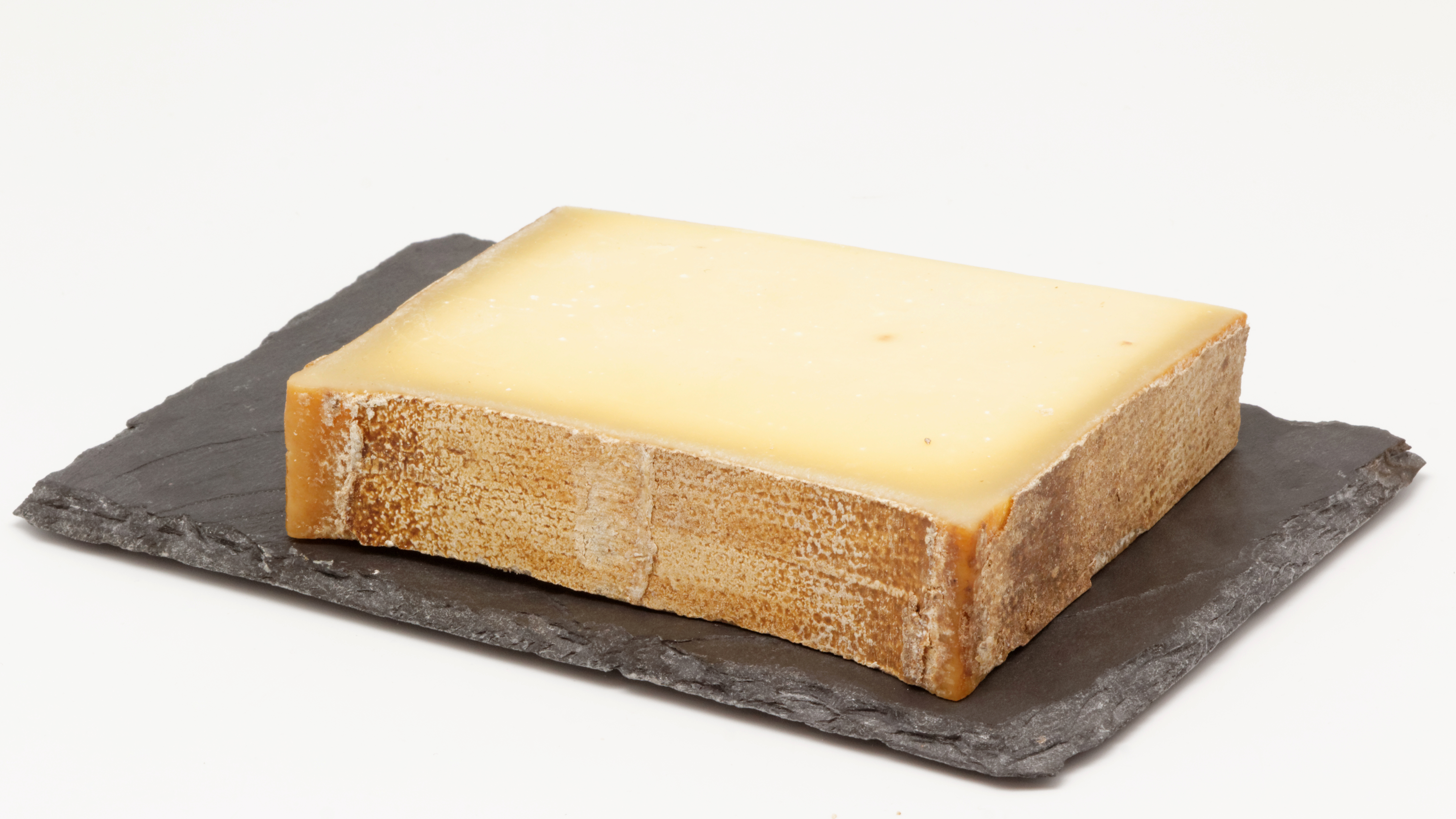 Beaufort